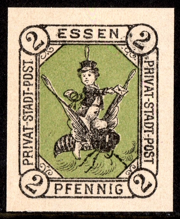 1887 Local stamp of Essen.